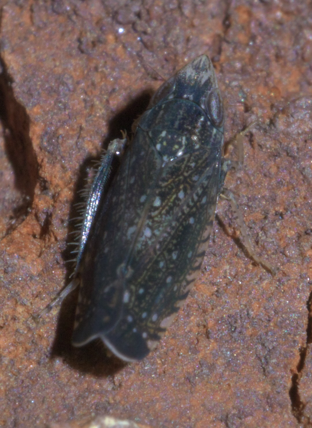 Scaphytopius frontalis, Yellowfaced Leafhopper, Size: 4 mm, ID Confidence: 88